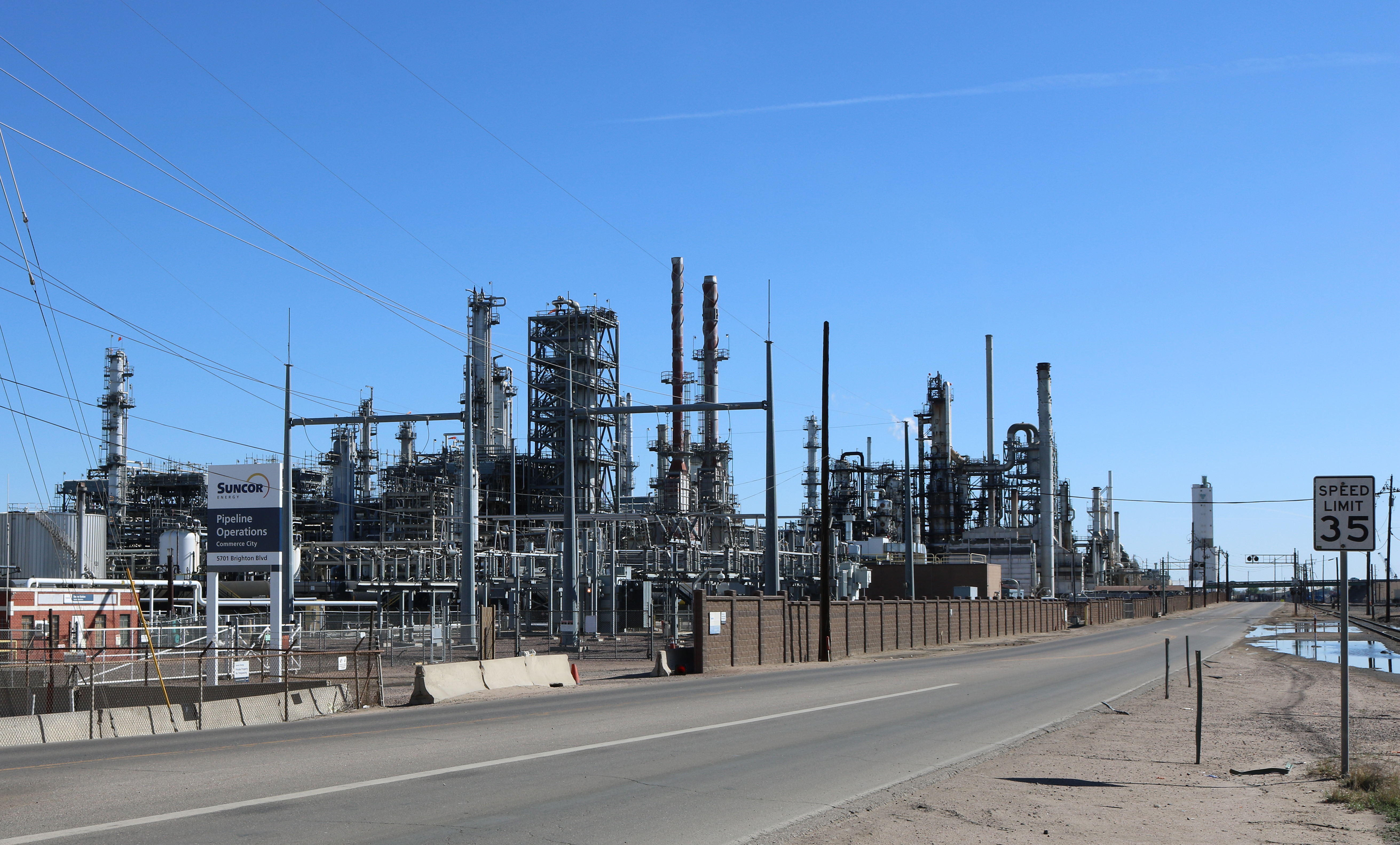 The Suncor Energy refinery on Brighton Boulevard in Commerce City, Colorado.